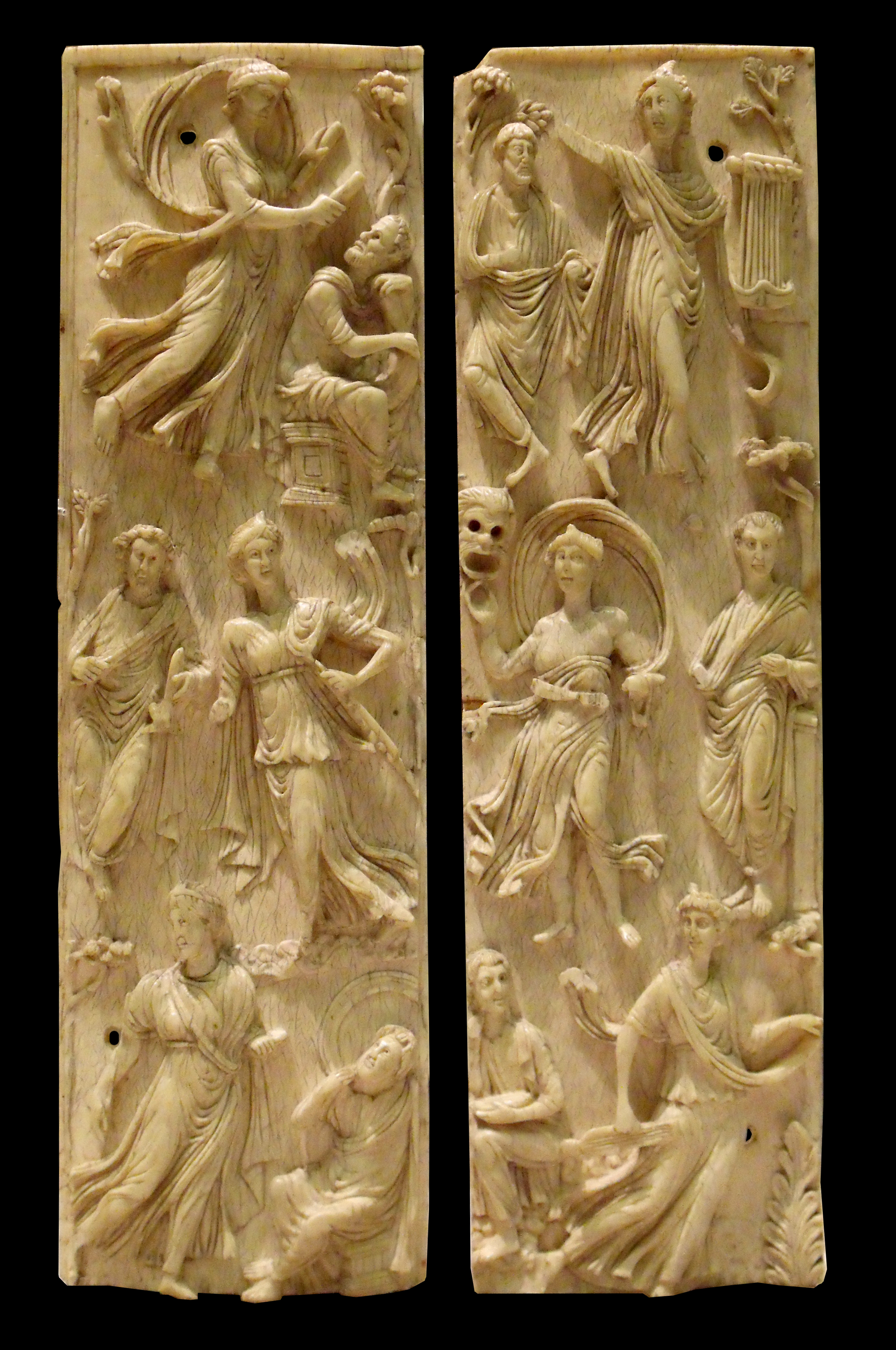 This ivory diptych diplays images of the muses together with ancient scholars or scientists. It was made in the 5th century AD, maybe in Gaul. It is kept in the Louvre (LP 1267)